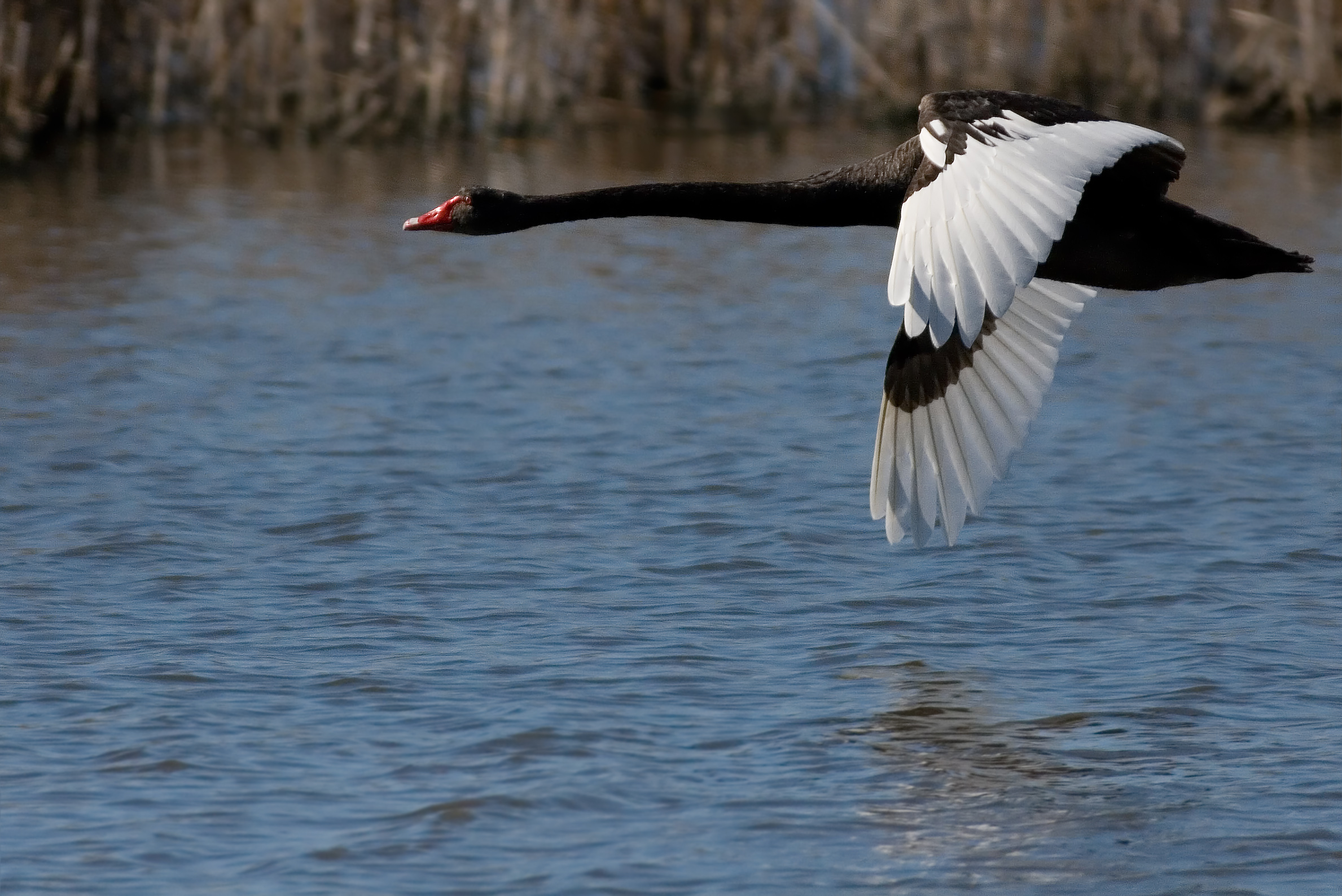 Black Swan (Cygnus atratus) in flight at Gould's Lagoon, Tasmania, Australia